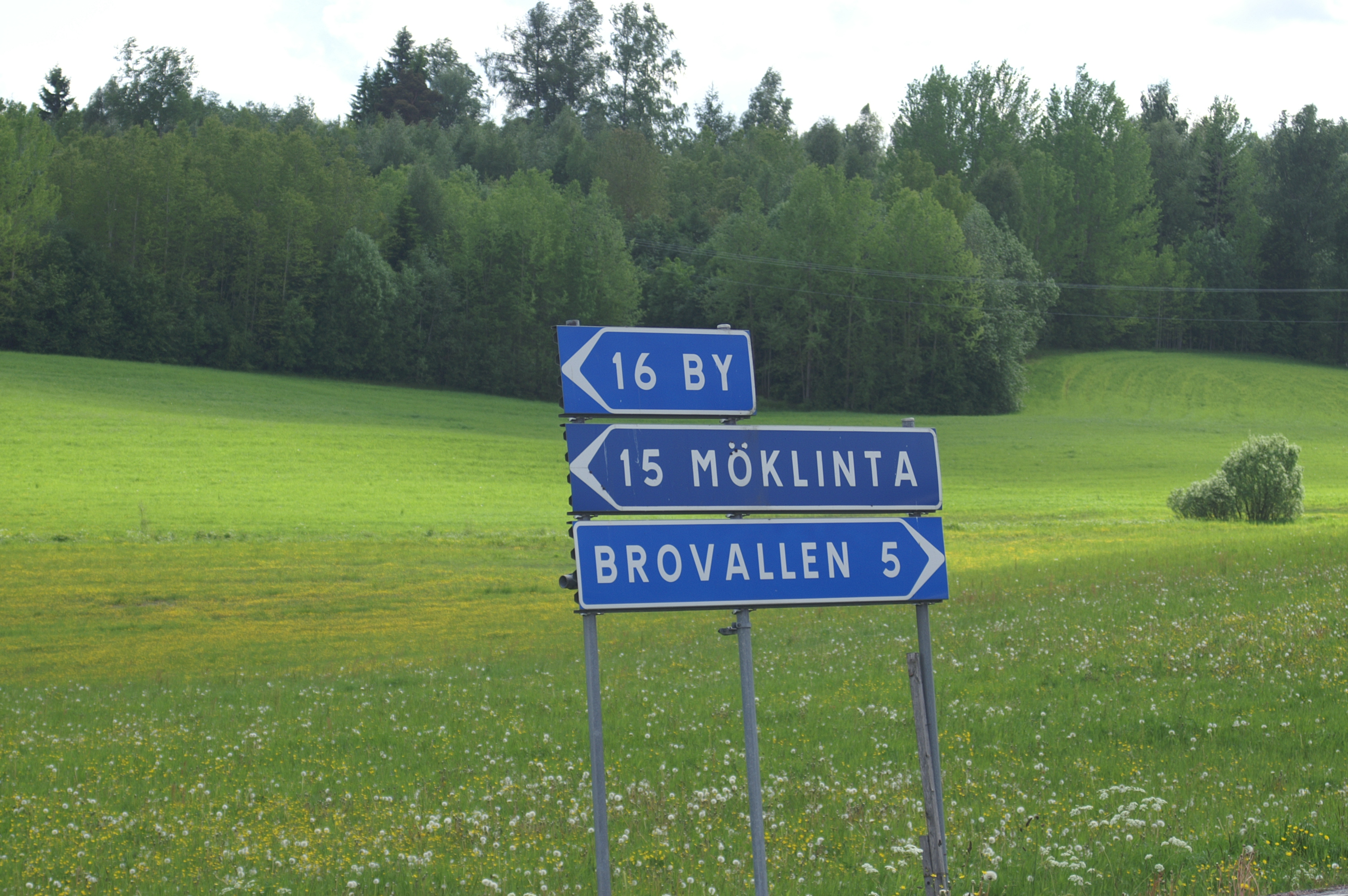 Road signs at the Swedish countryside. (Folkärna, Dalarna, Sweden).